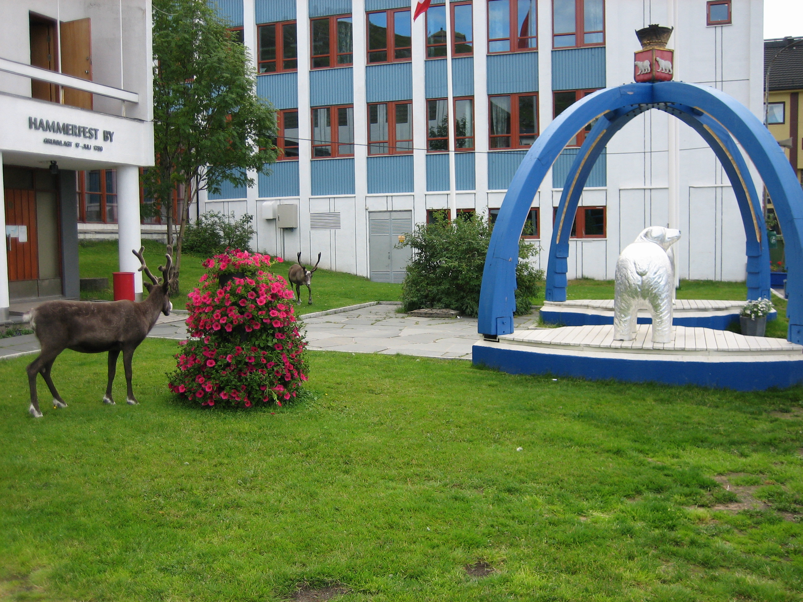 Reindeer in the centre of Hammerfest, Norway, right outside the town hall